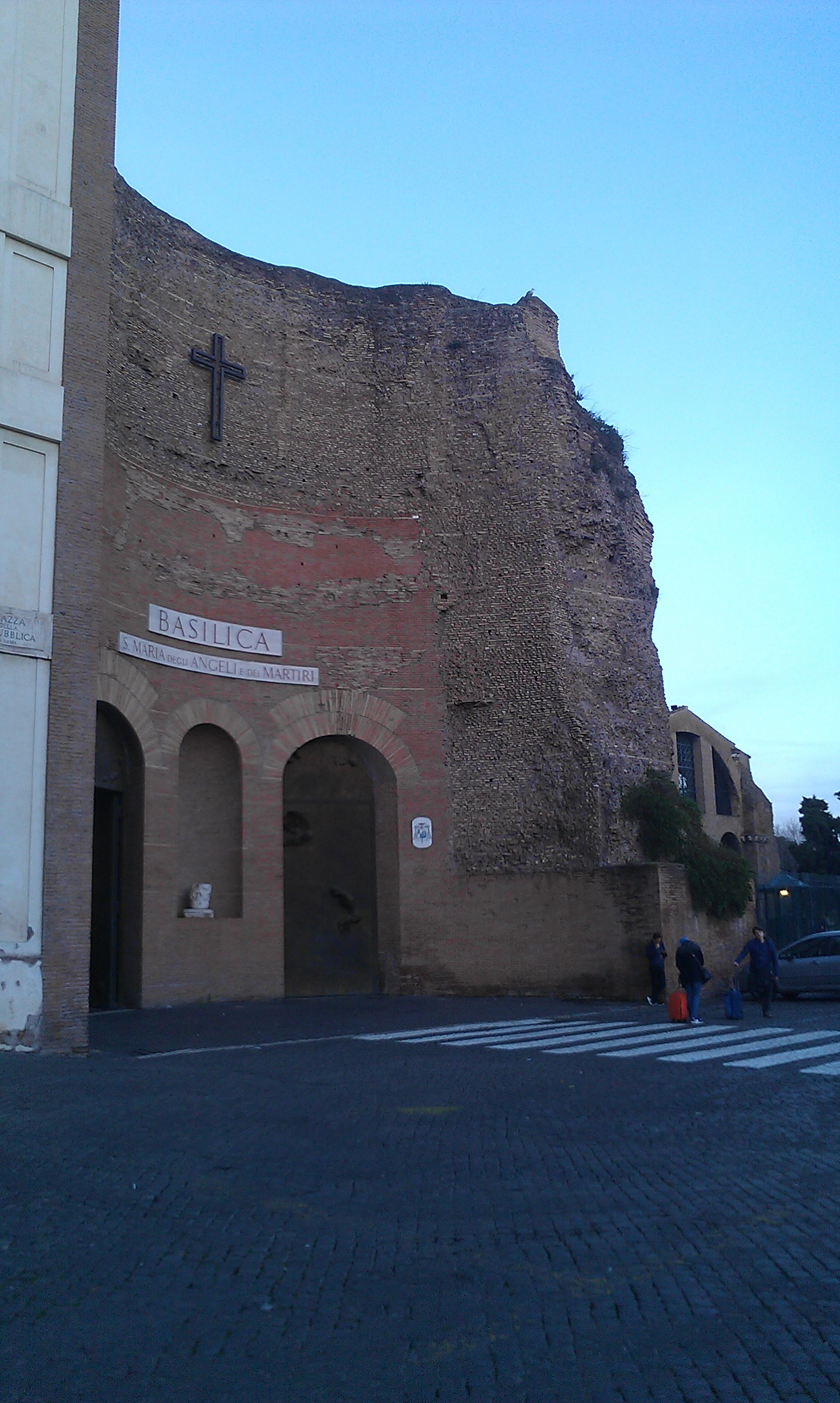 Entrance to the Santa Maria degli Angeli e dei Martiri in Rome.